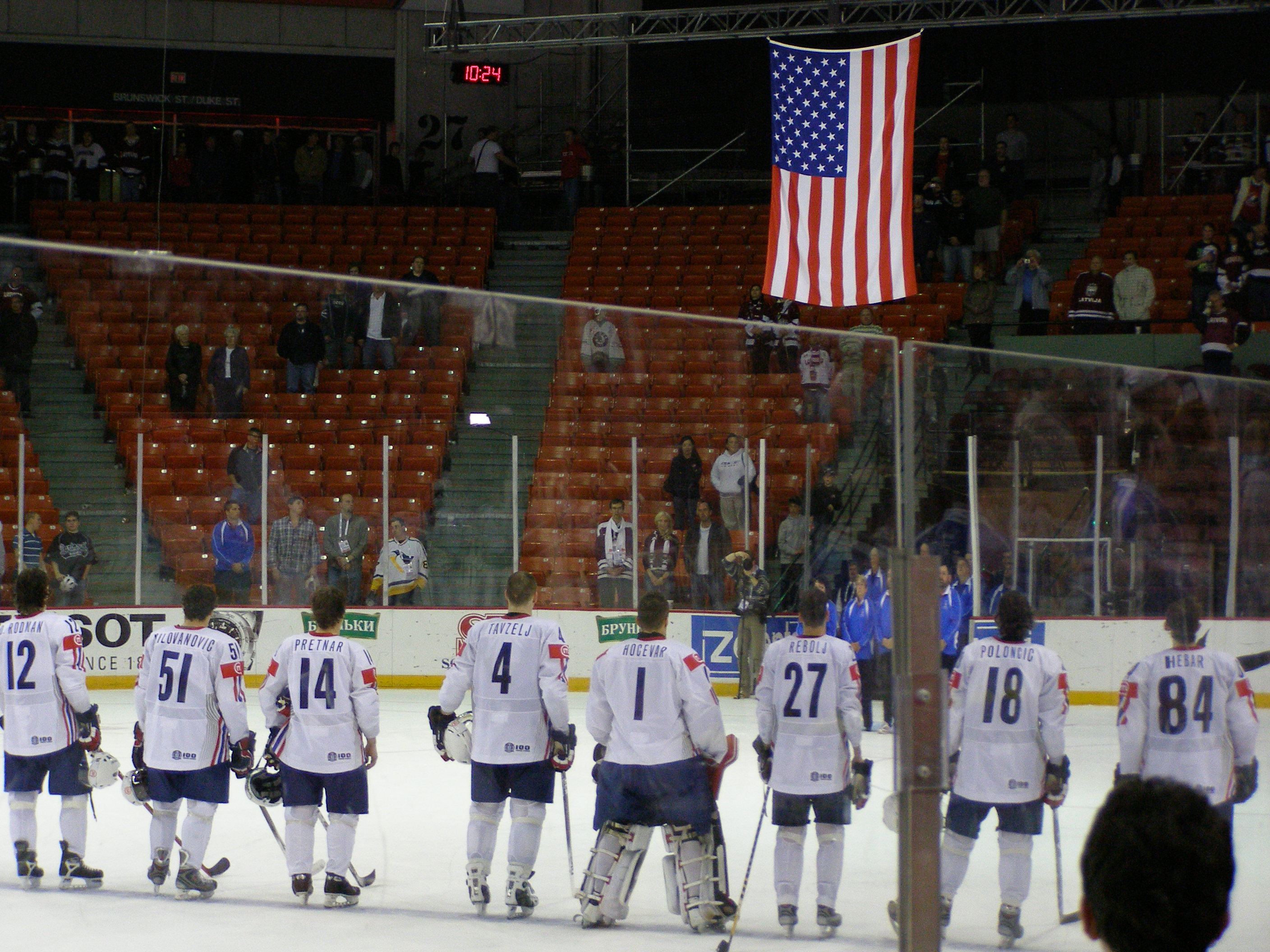 Slovenia VS USA (IIHF World Hockey Championship in Halifax NS, May 4 2008)